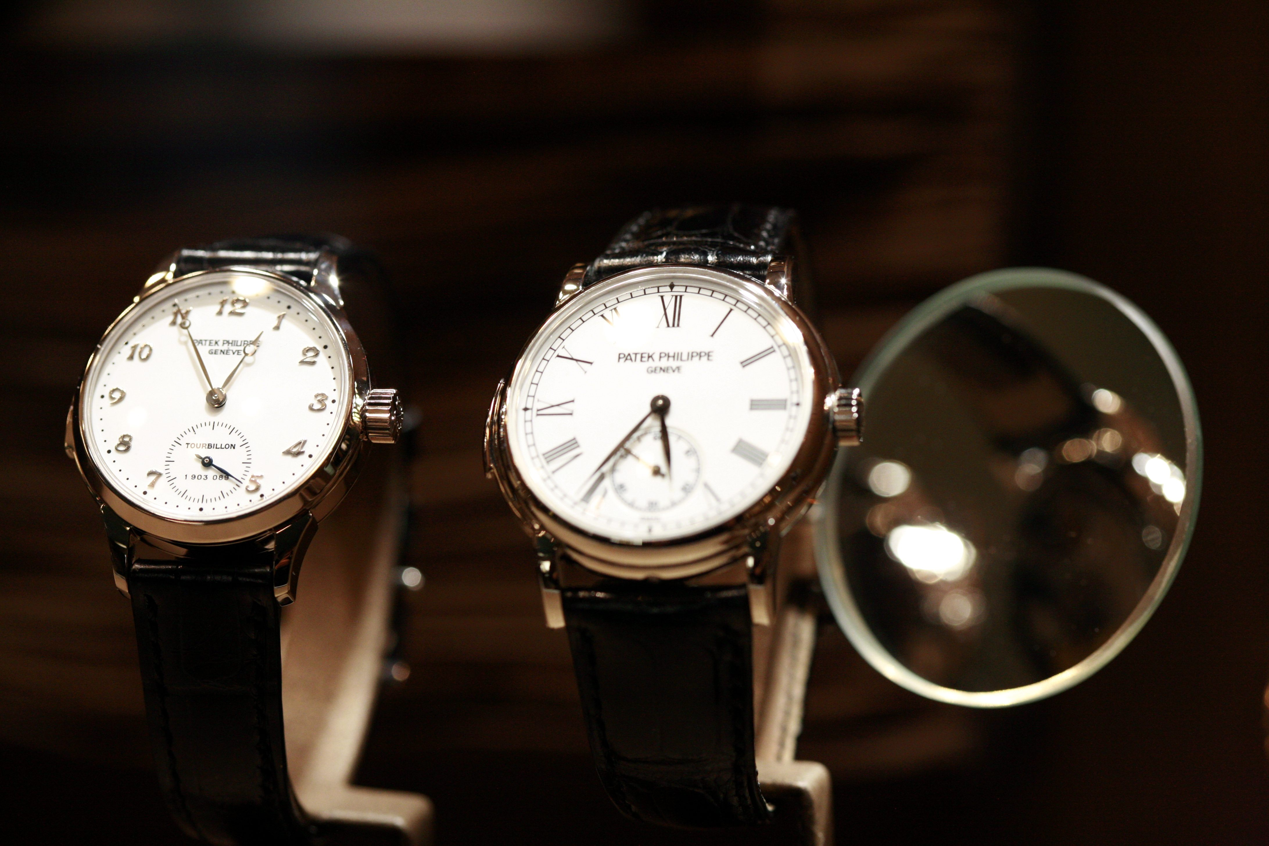 Patek Philippe & Co. watch